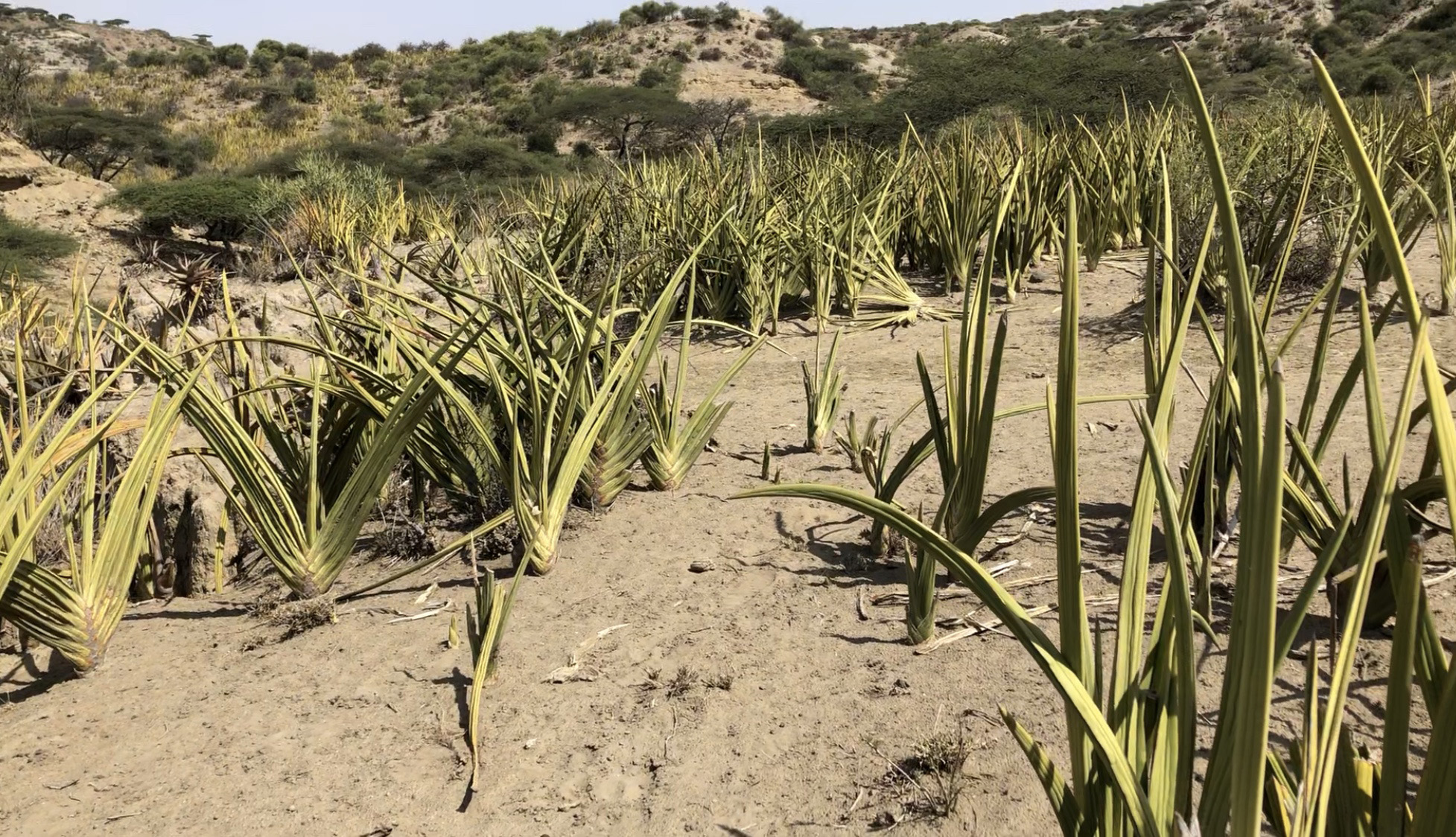 Oldupai, or East African Wild Sisal, grows in abundance throughout Olduvai Gorge in northern Tanzania.